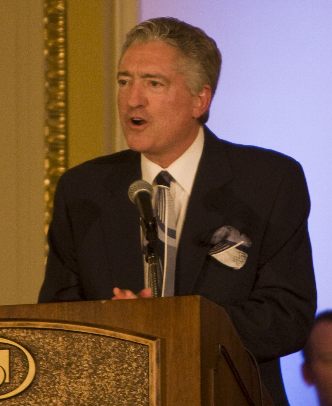 Pat Hughes